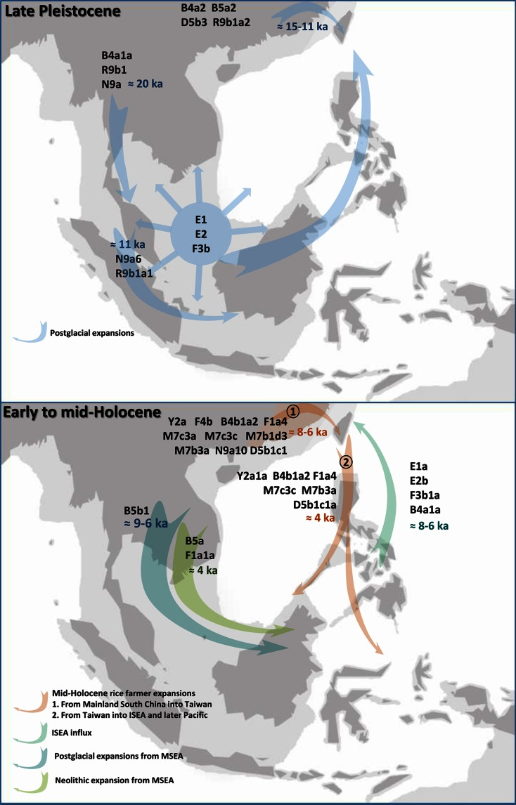 Outline of maternal lineages involved in the main human migrations in the region of Southeast Asia and Taiwan. Includes those discussed here and also those described previously in Soares et al. (2016), including B5a and F1a1a, which were inferred to have dispersed from MSEA with the Neolithic. Dark shading represents the modern coastlines and the extent of Sundaland at the LGM is represented by the light shading. The map was obtained from the website